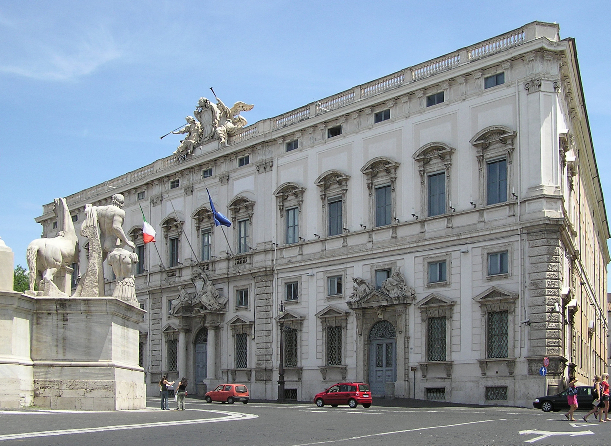 The Constitutional Court of Italy in Palazzo della Consulta is one of the Quirinal Hill government buildings in Rome.